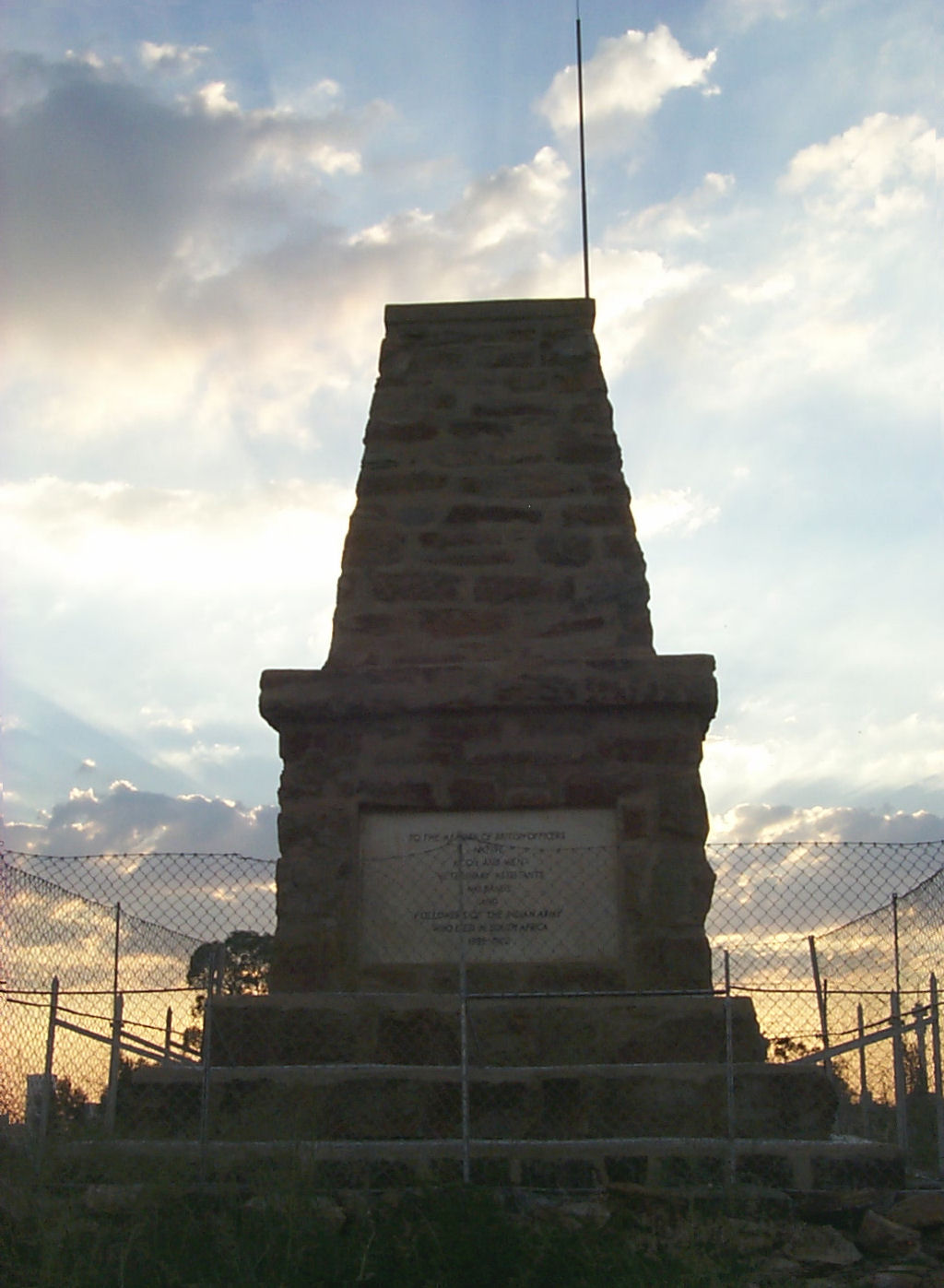 Photo of the Indian monument, on Observatory Ridge, Johannesburg